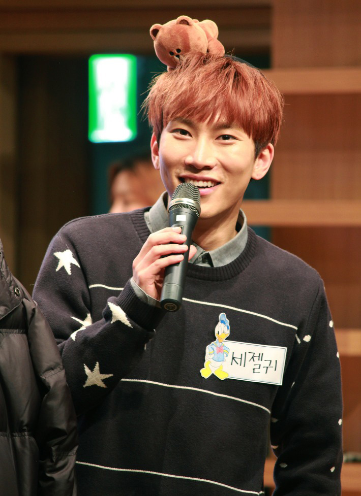 150110 Yongsan fansign, BTOB Seo Eunkwang.